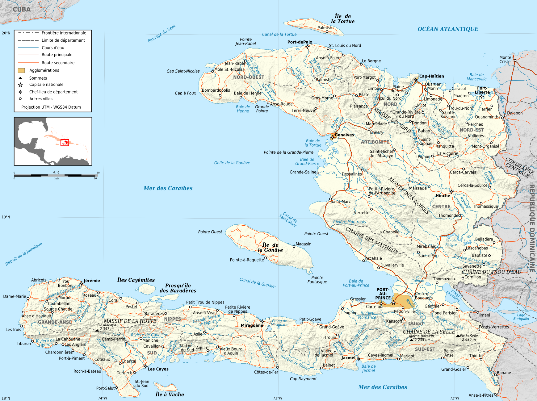 Road map of Haiti in French. Use the SVG version for translations and alterations, then update this one.